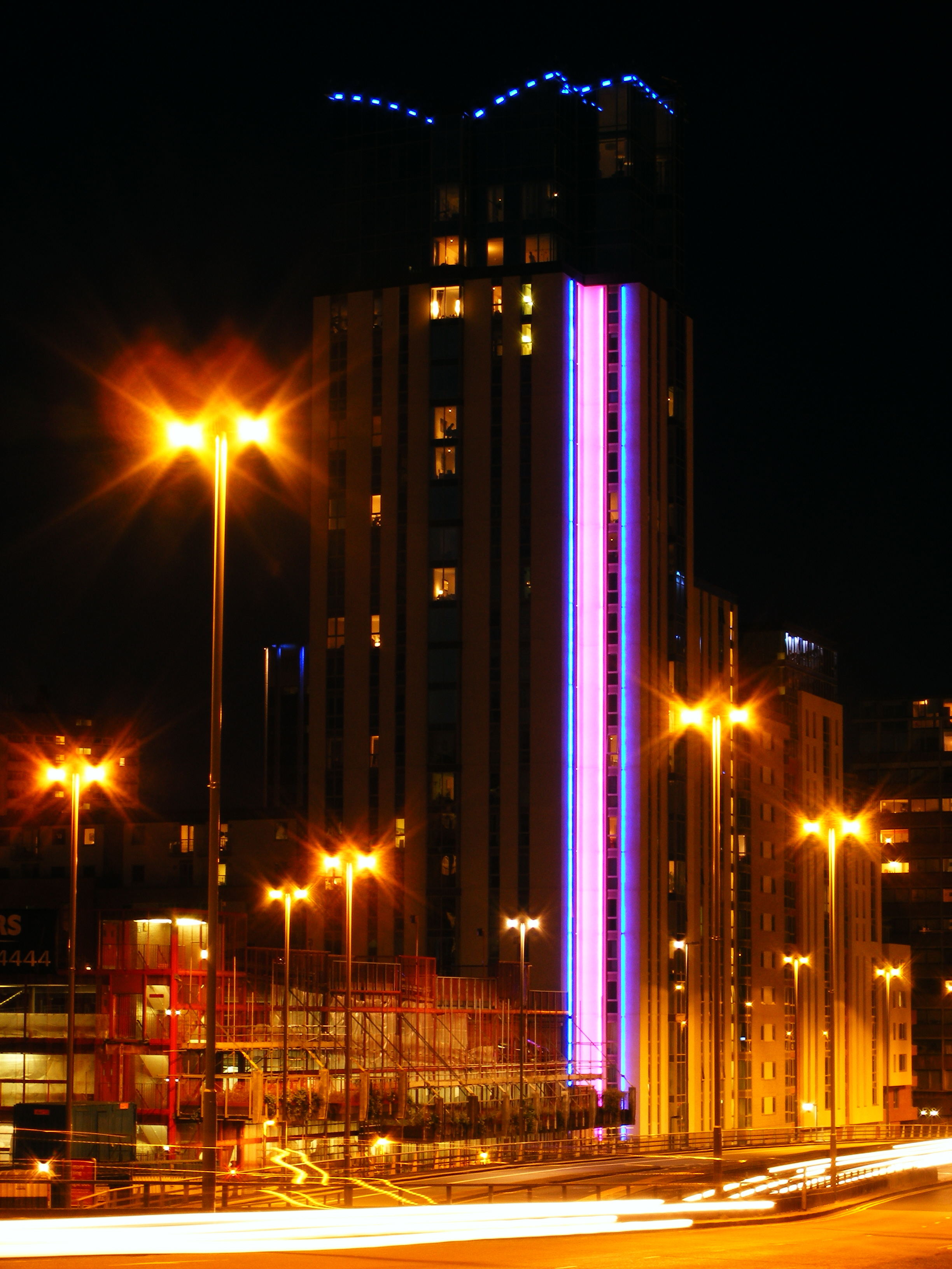 Orion Tower, Birmingham, from Suffolk Street Queensway near Broad Street.